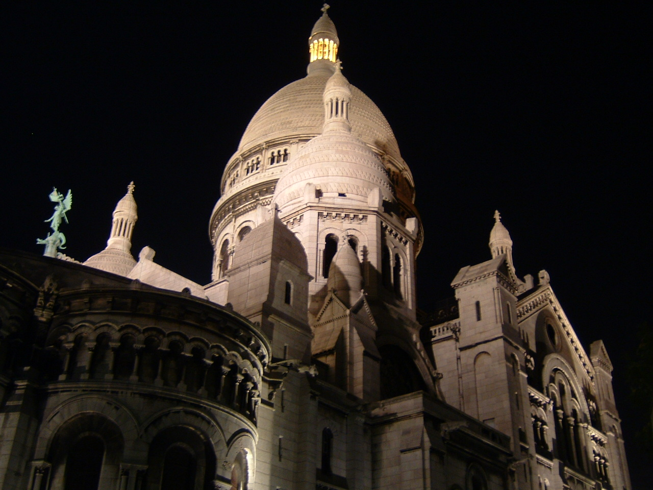 Had to keep very steady but still a bit of shake there.